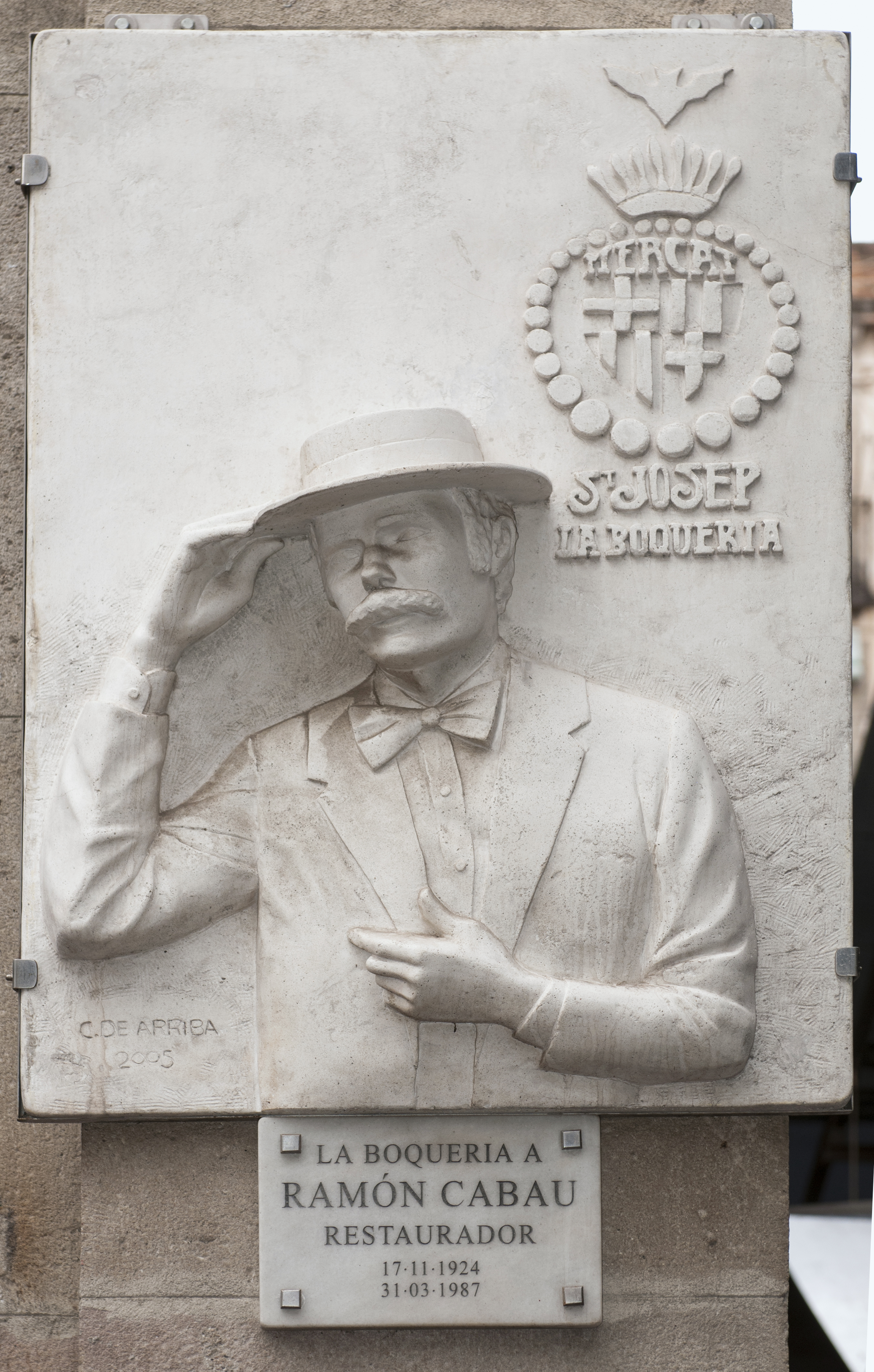 Plate of Ramón Cabau at the entry of Boqueria Market in Barcelona